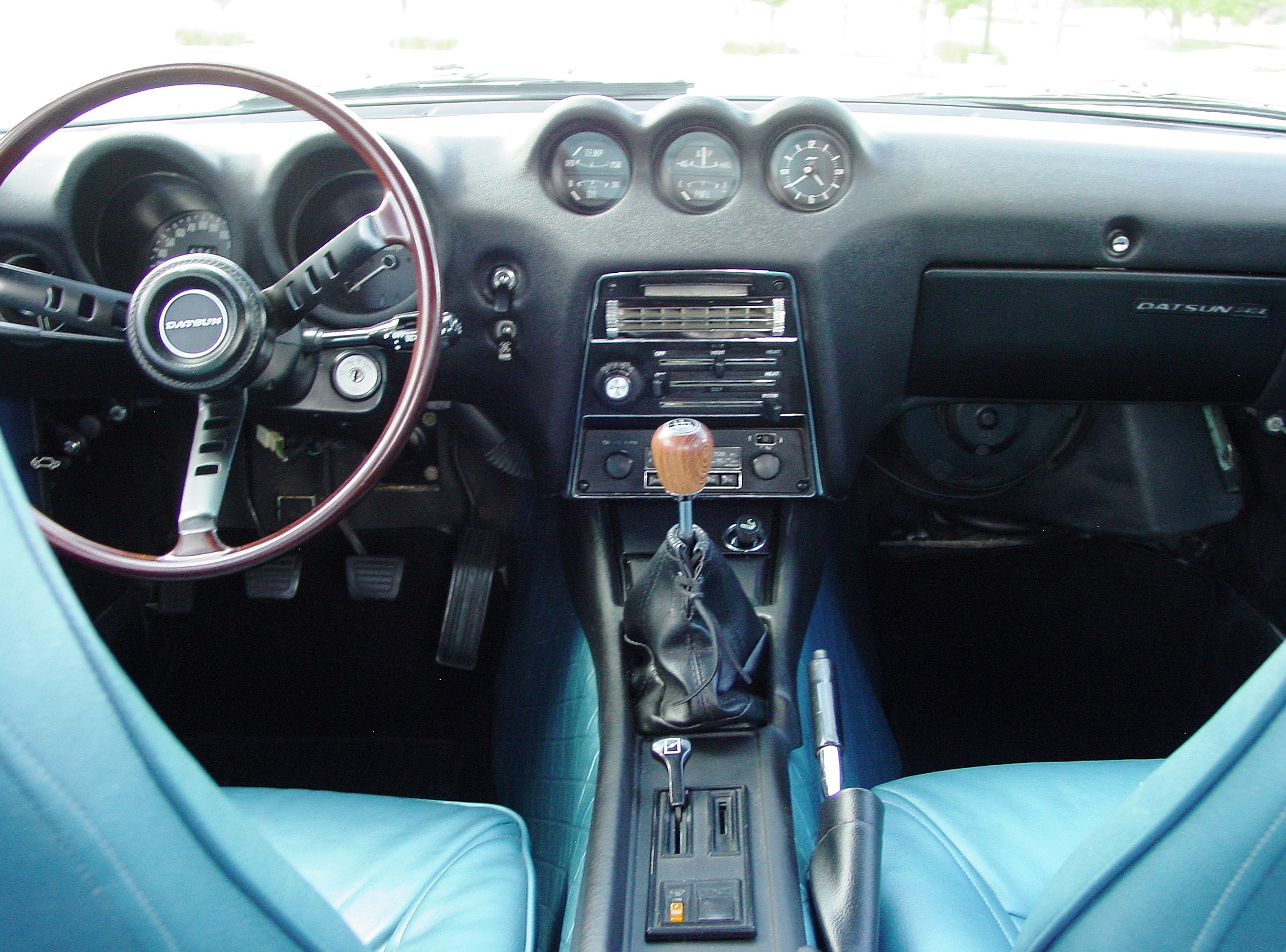 View of the refreshed interior of my rust-free 240Z that I bought in Phoenix in 6/2007, restored the car and then sold it in 10/2013